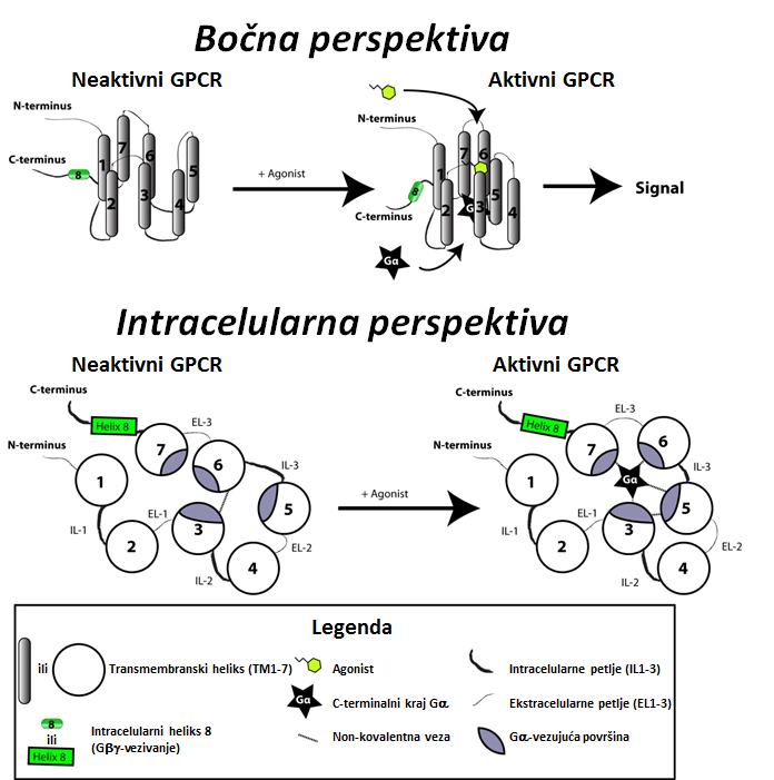 Serbian translation of the figure found at